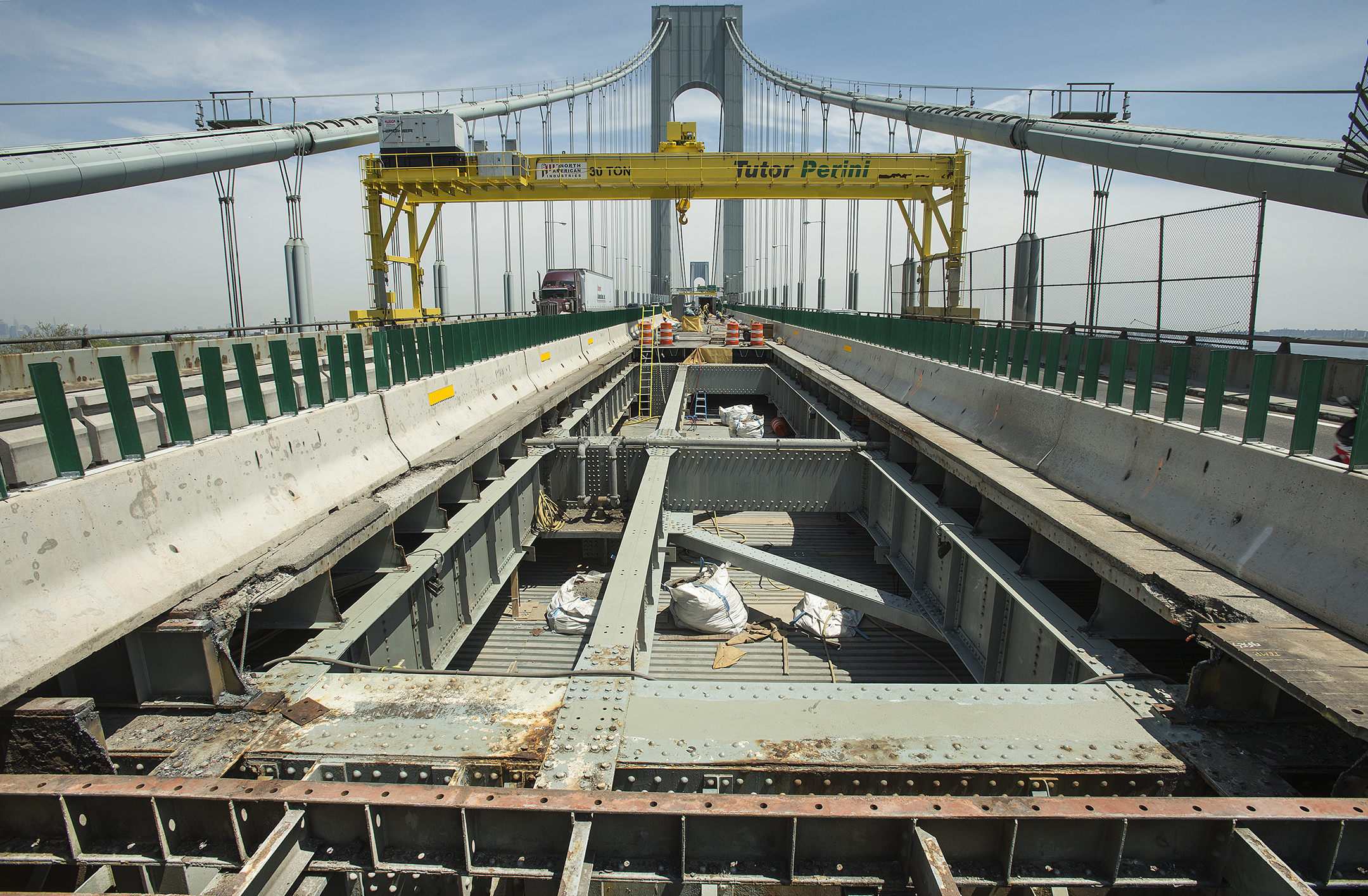 Crews work during Phase One of repairs to the upper level of the Verrazano-Narrows Bridge. Work is expected to continue through summer 2017. Photo: Metropolitan Transportation Authority / Patrick Cashin